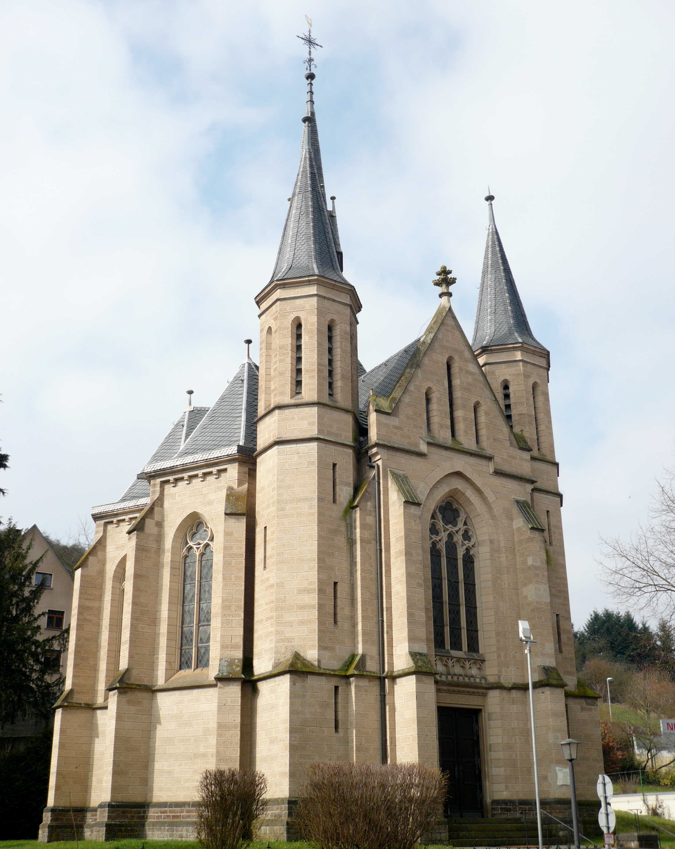 Marienkapelle at Adenau